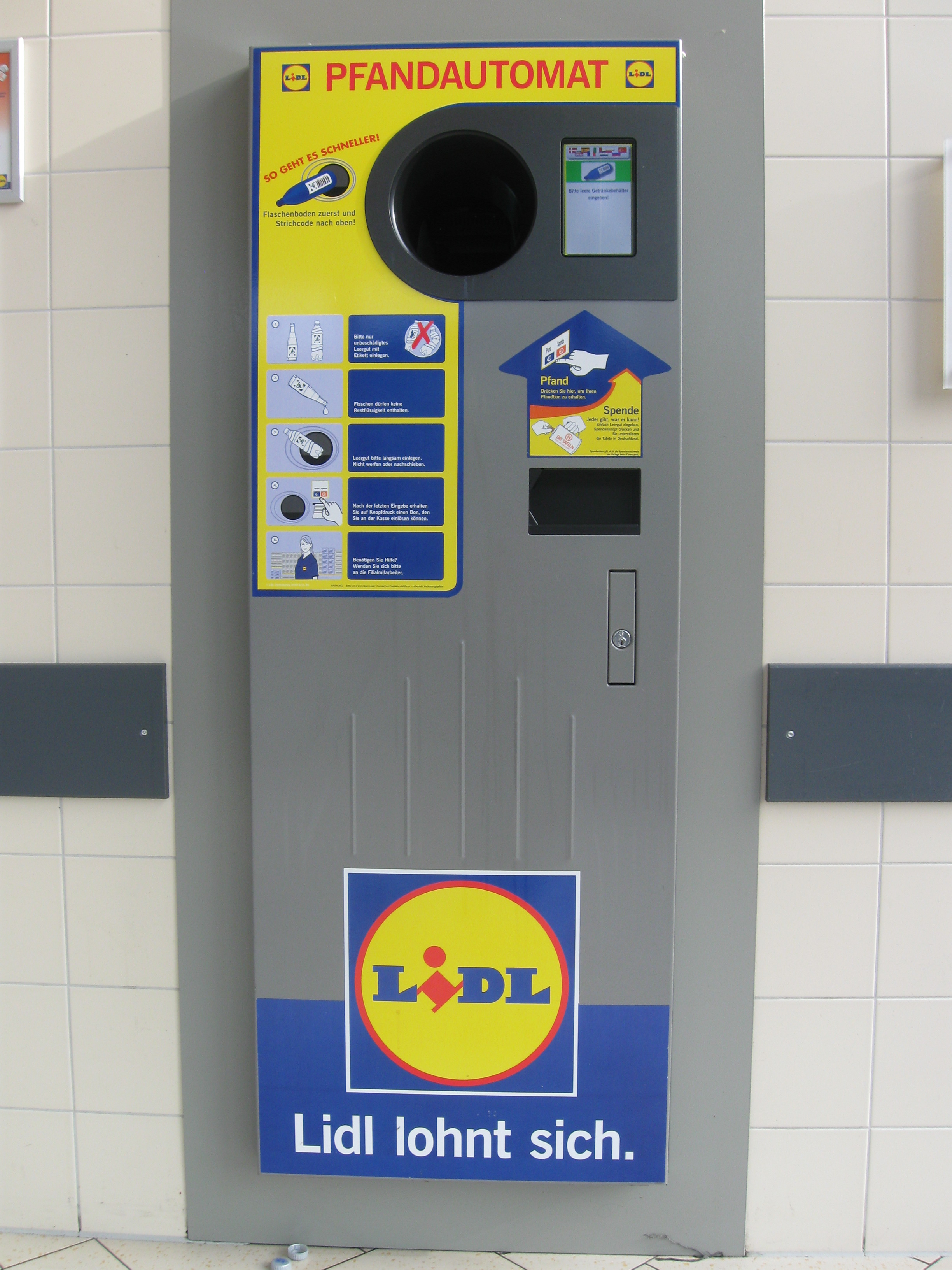 Bottle recycling machine in a Lidl grocery store in Western Germany